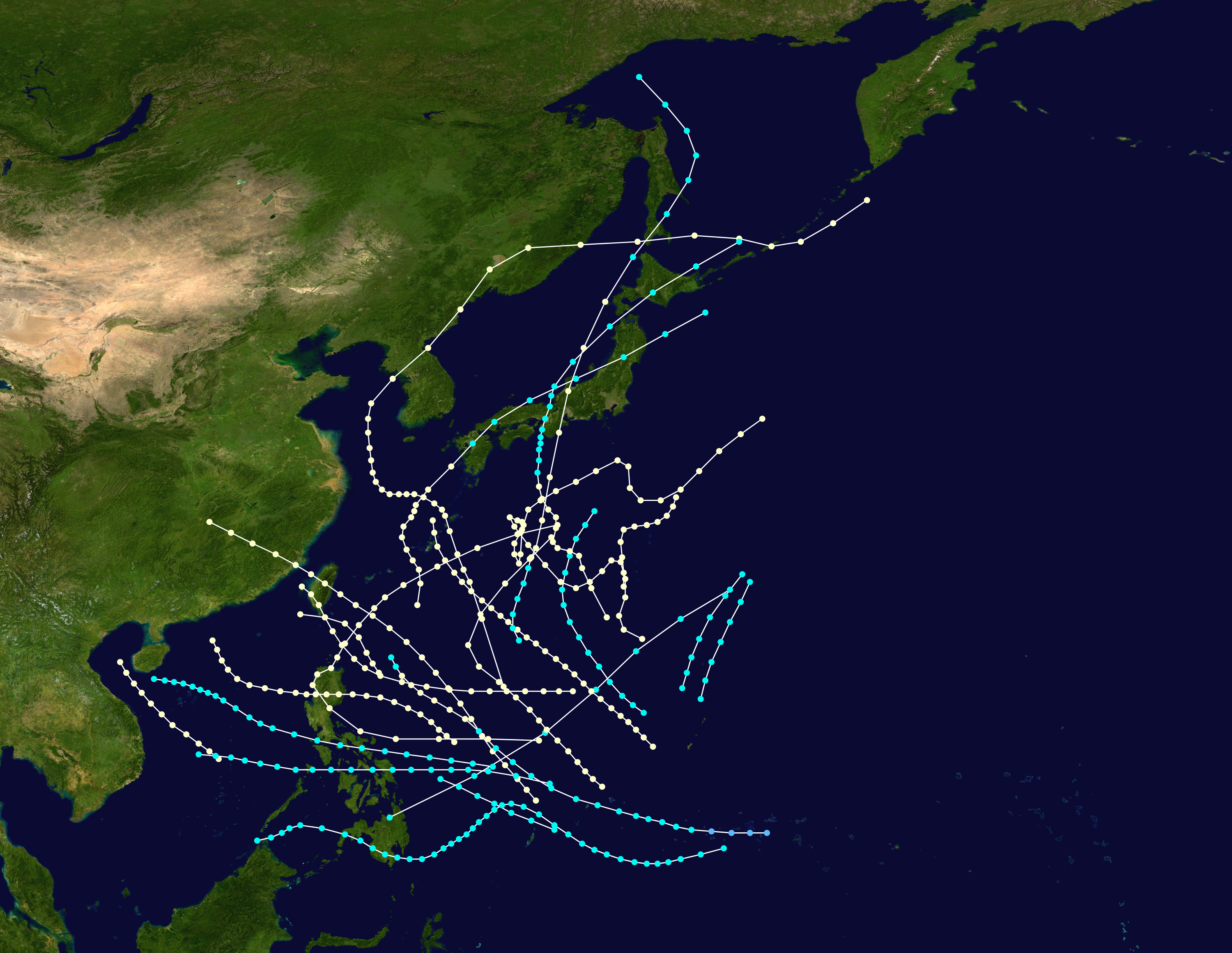 This map shows the tracks of all tropical cyclones in the 1944 Pacific typhoon season. The points show the location of each storm at 6-hour intervals. The colour represents the storm's maximum sustained wind speeds as classified in the Saffir-Simpson Hurricane Scale (see below), and the shape of the data points represent the nature of the storm. Saffir–Simpson hurricane wind scale Tropical depression≤38 mph≤62 km/h Category 3111–129 mph178–208 km/h Tropical storm39–73 mph63–118 km/h Category 4130–156 mph209–251 km/h Category 174–95 mph119–153 km/h Category 5≥157 mph≥252 km/h Category 296–110 mph154–177 km/h Unknown Storm typeTropical cycloneSubtropical cycloneExtratropical cyclone / Remnant low / Tropical disturbance